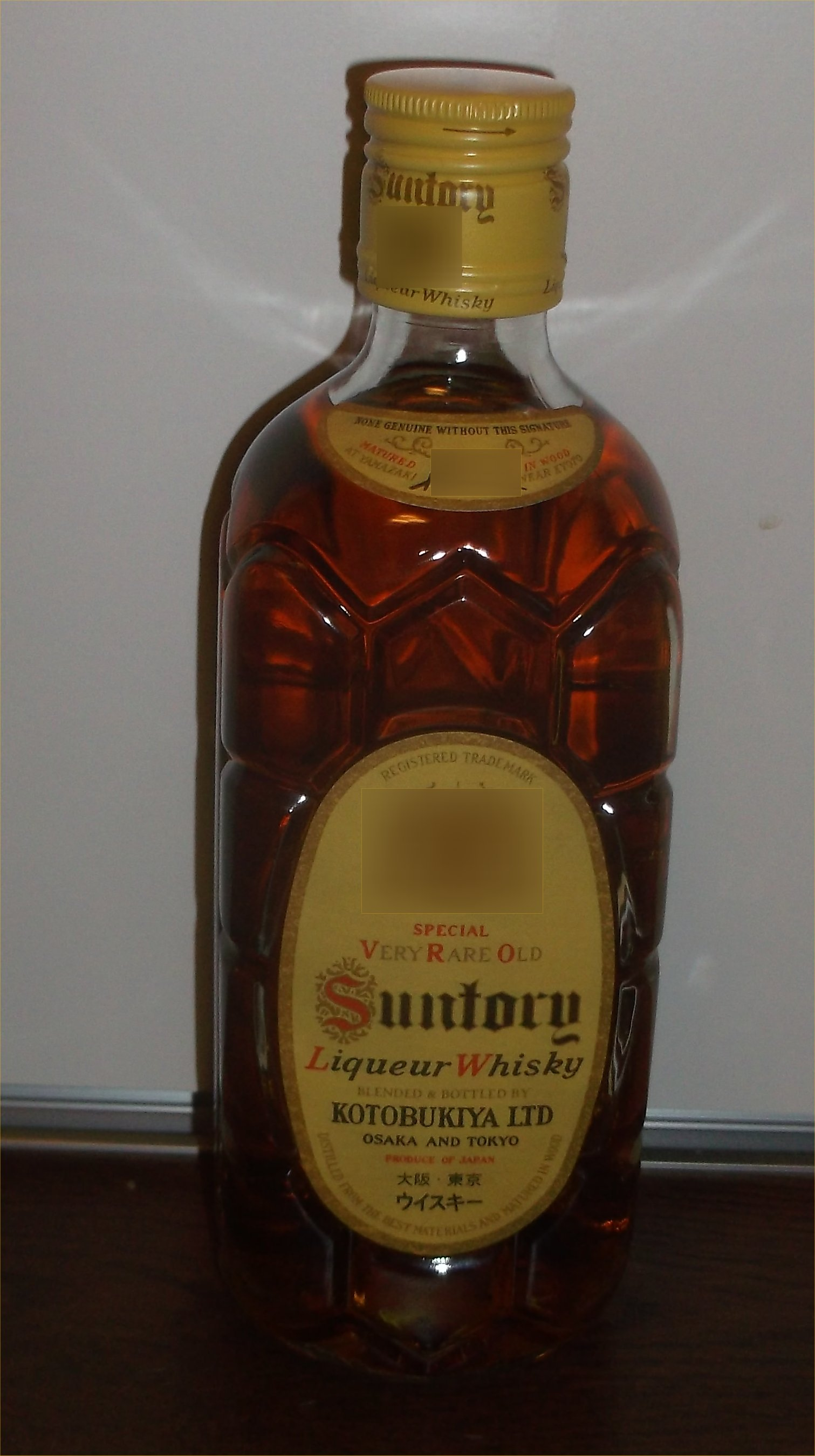 A photo of "Suntory Kaku revival version"(2015)(a whisky in Japan.)